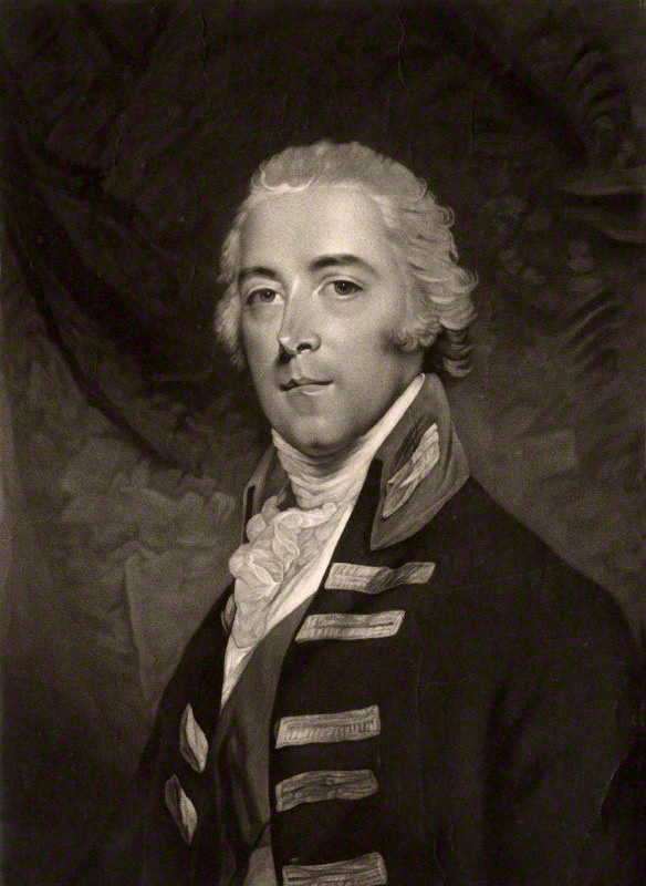 Portrait of John Pitt, 2nd Earl of Chatham